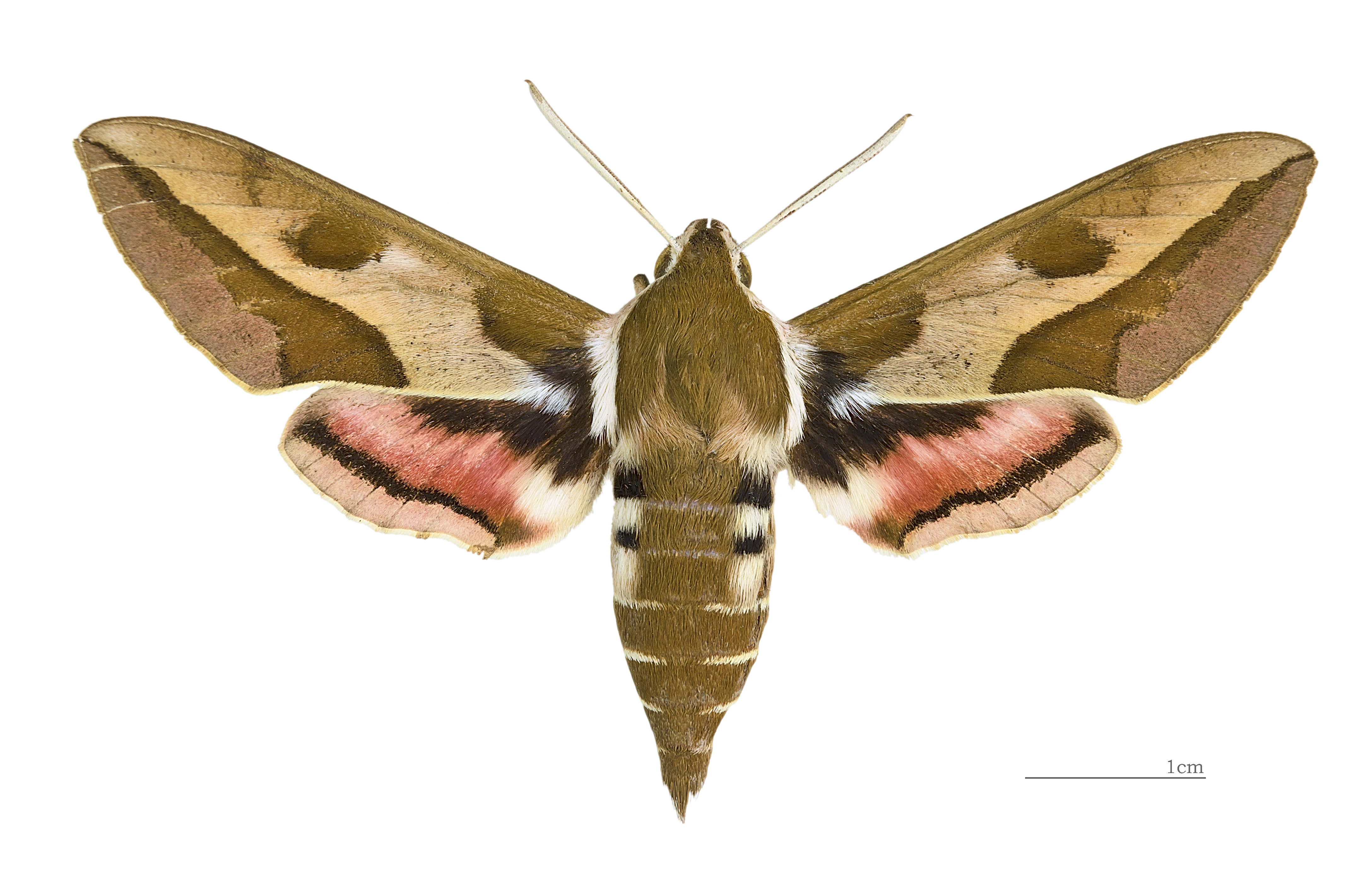 Spurge Hawk-moth - Dorsal side